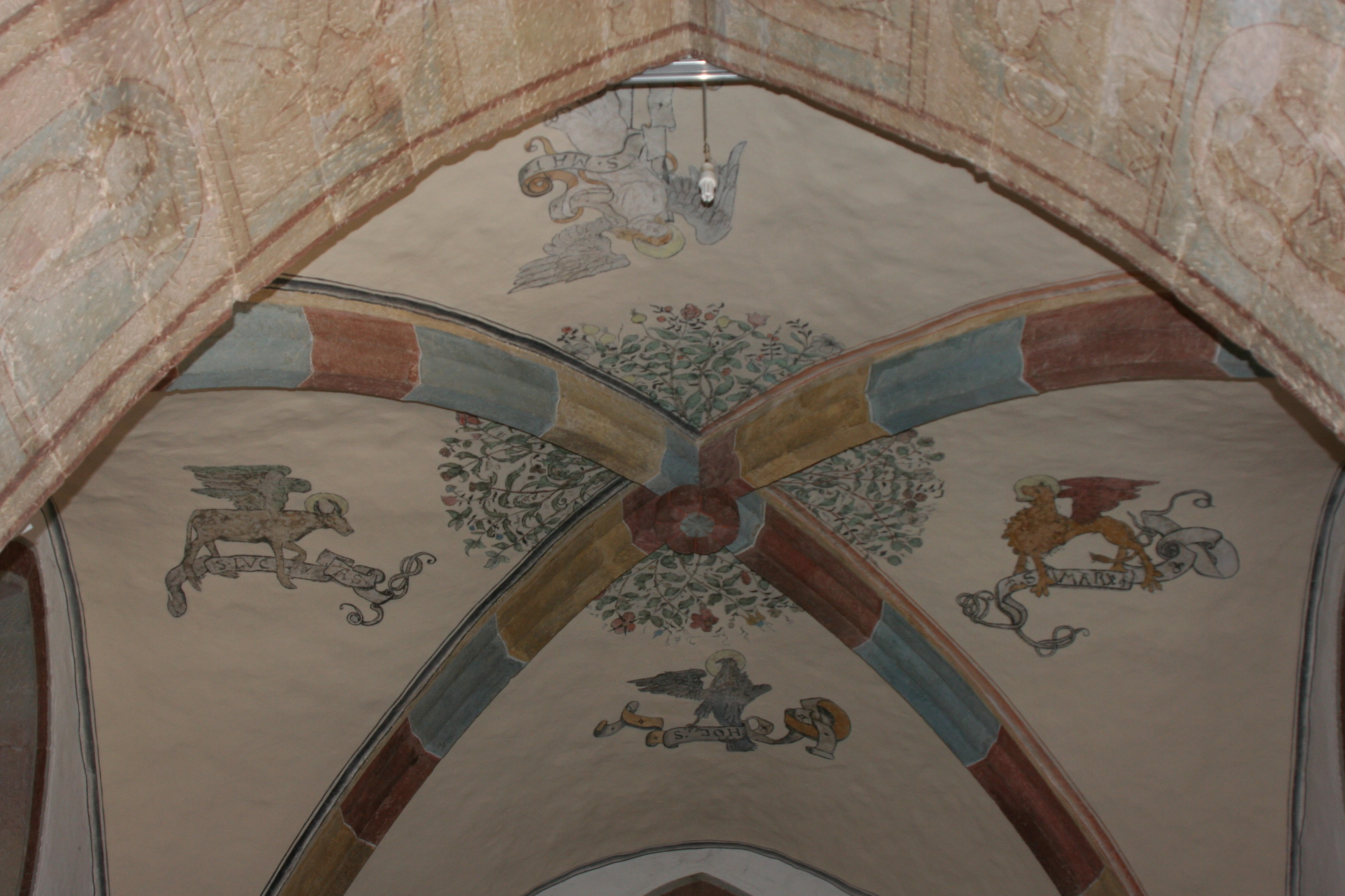 The protestant Ulrich church in Eberstadt. Choir vault